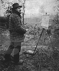 Belgian painter Modest Huys, St-Eloois-Vijve, 1917.